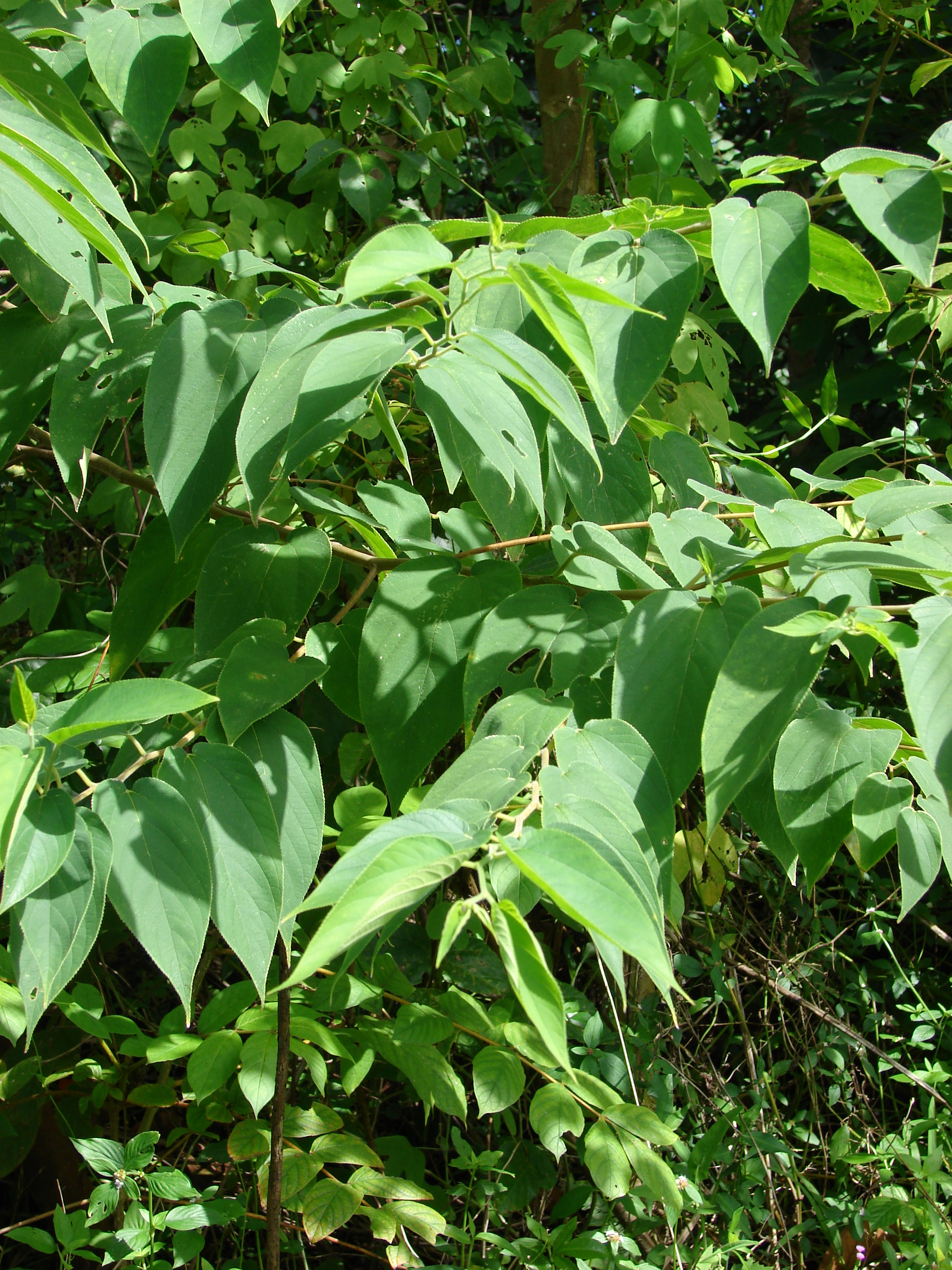 Trema orientalis (leaves). Location: Maui, Hana